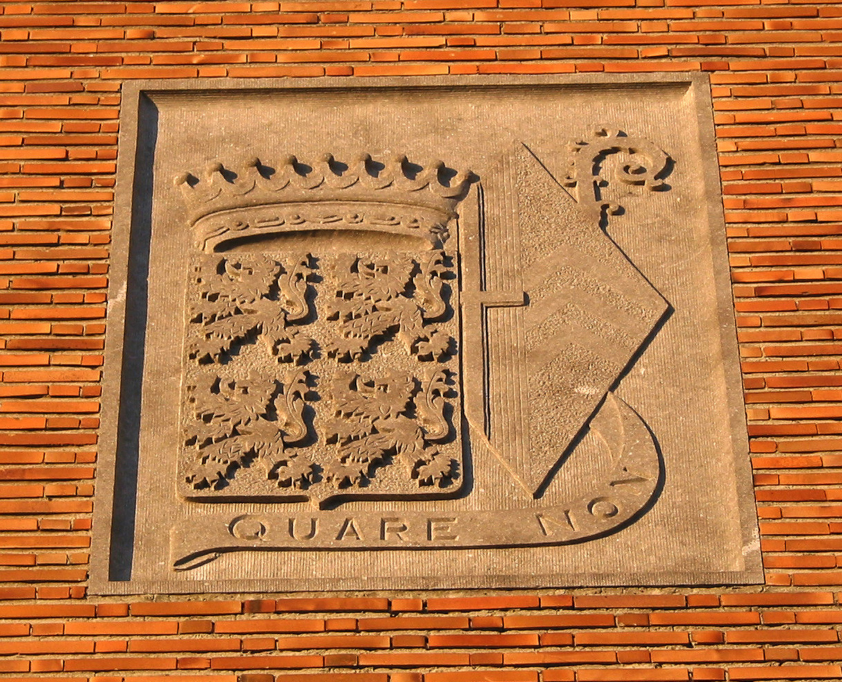 Quaregnon (Belgium) arms the municipality.